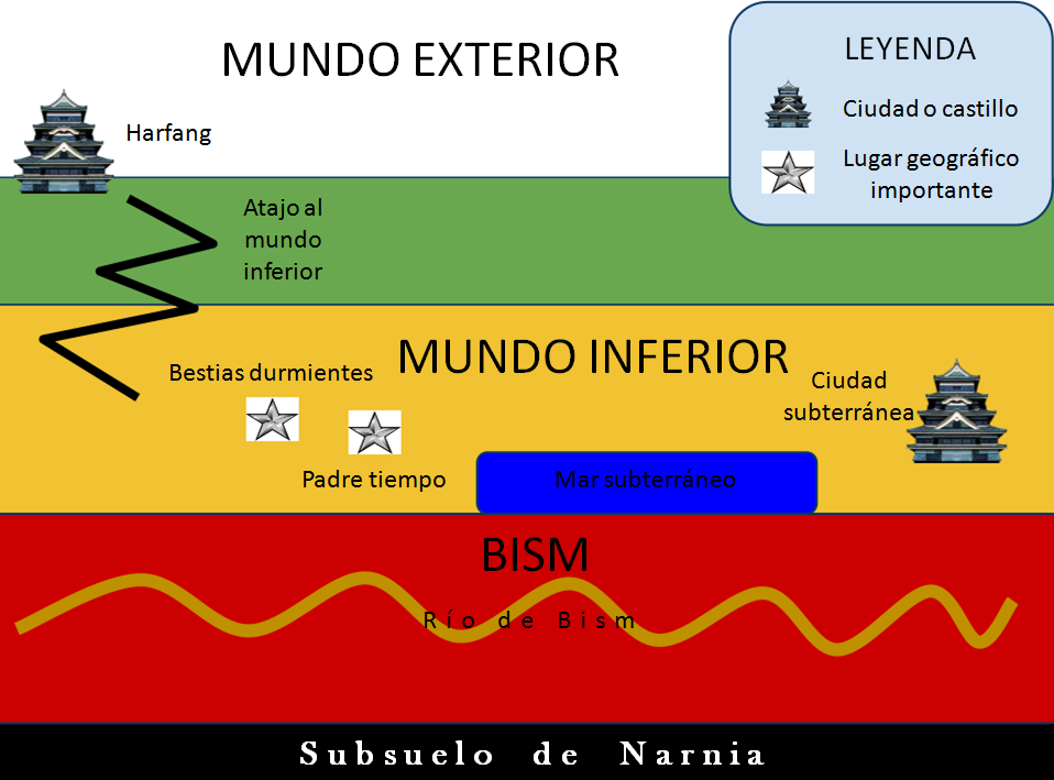 Vertical cross-section of part of Narnia as detailed in the Narnia book The Silver Chair, revealing below-ground realms.